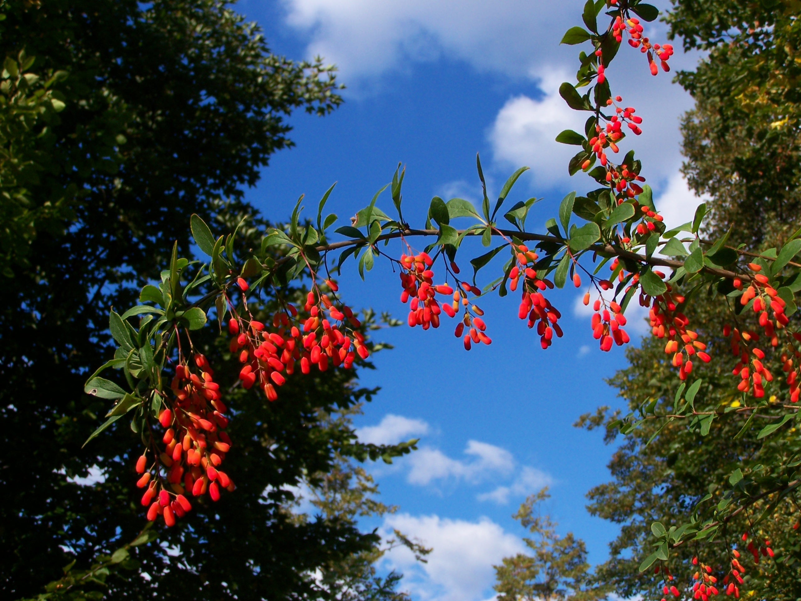 Berberis.